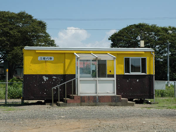 Kita-Norishiro Station, on the JR Gonō Line, Happō, Akita, Japan